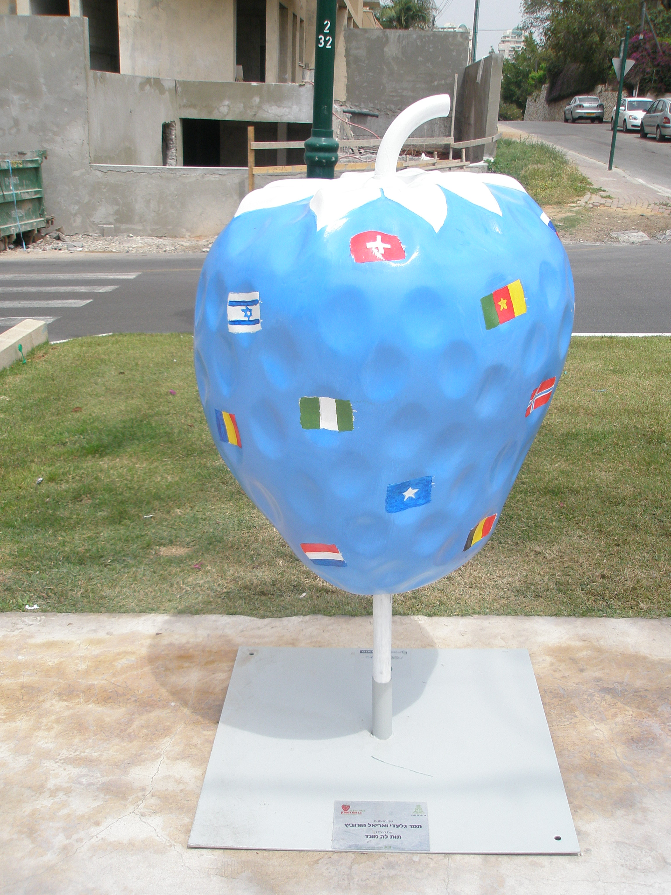 Tout le Monde, By Tamar Giladi & Ariel Horowitz, a sculpture at "Toot Sade BeRamat Hashron" exhibition